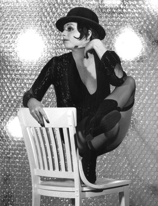 Publicity photo of Liza Minnelli from her 1973 Liza With a Z television special.